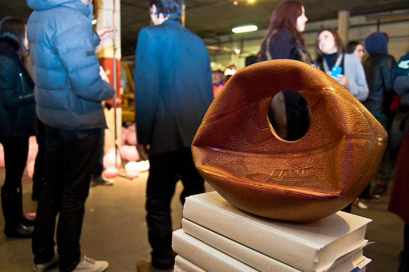 "Slammed and Dunked" basketball sculpture by XVALA, from his Dumpster Diving series, on view at the artist's solo exhibition "The Kim Kardashian Party," Los Angeles, CA, 2012, curated by JB Jones and Wil Atkinson of The Site Unscene (TSUS). Photo by Erwin Recinos for The Site Unscene.